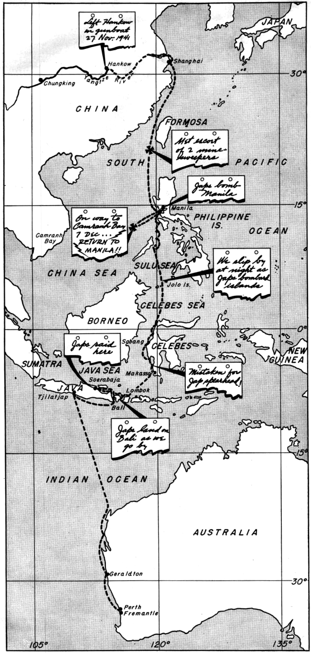 Map of the escape of Lt. Kemp Tolley from Hankow, China, to Fremantle, Australia, between 27 November 1941 and 18 March 1942. In Manila, Philippines, Tolley took over command of the schooner Lanikai, escaping to Australia in 82 days.